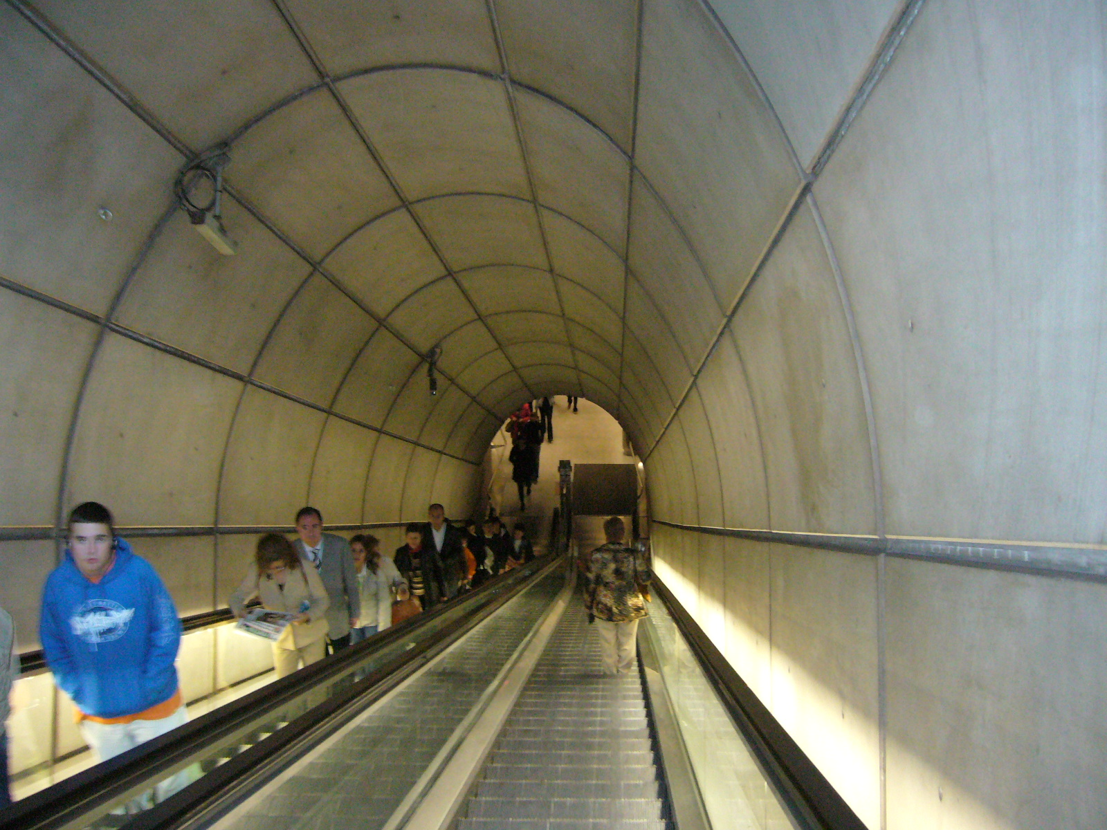 Metro Bilbao, entrance 23 nov 2006.